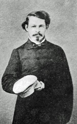 Detail from an 1861 photo of Frederick Townsend Ward